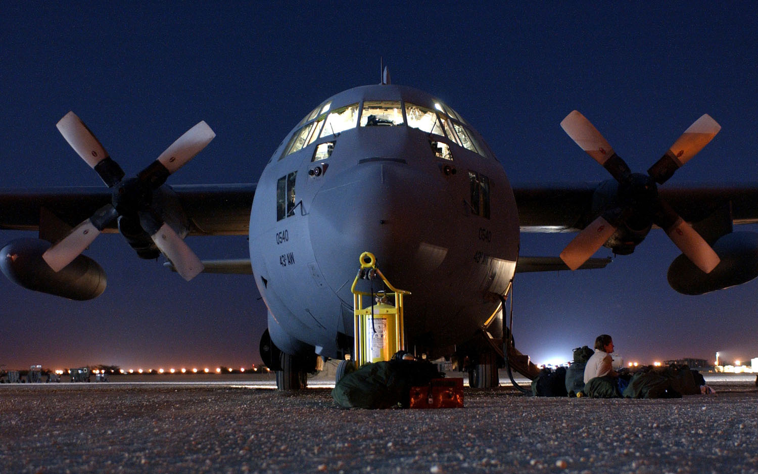 Air Force helps Army with airdrops: OPERATION ENDURING FREEDOM -- A C-130 Hercules, assigned to the 320th Air Expeditionary Wing at a forward-deployed location, awaits its next mission on the flightline. The aircraft was used to perform a heavy equipment airdrop into south central Afghanistan supporting Operation Enduring Freedom.